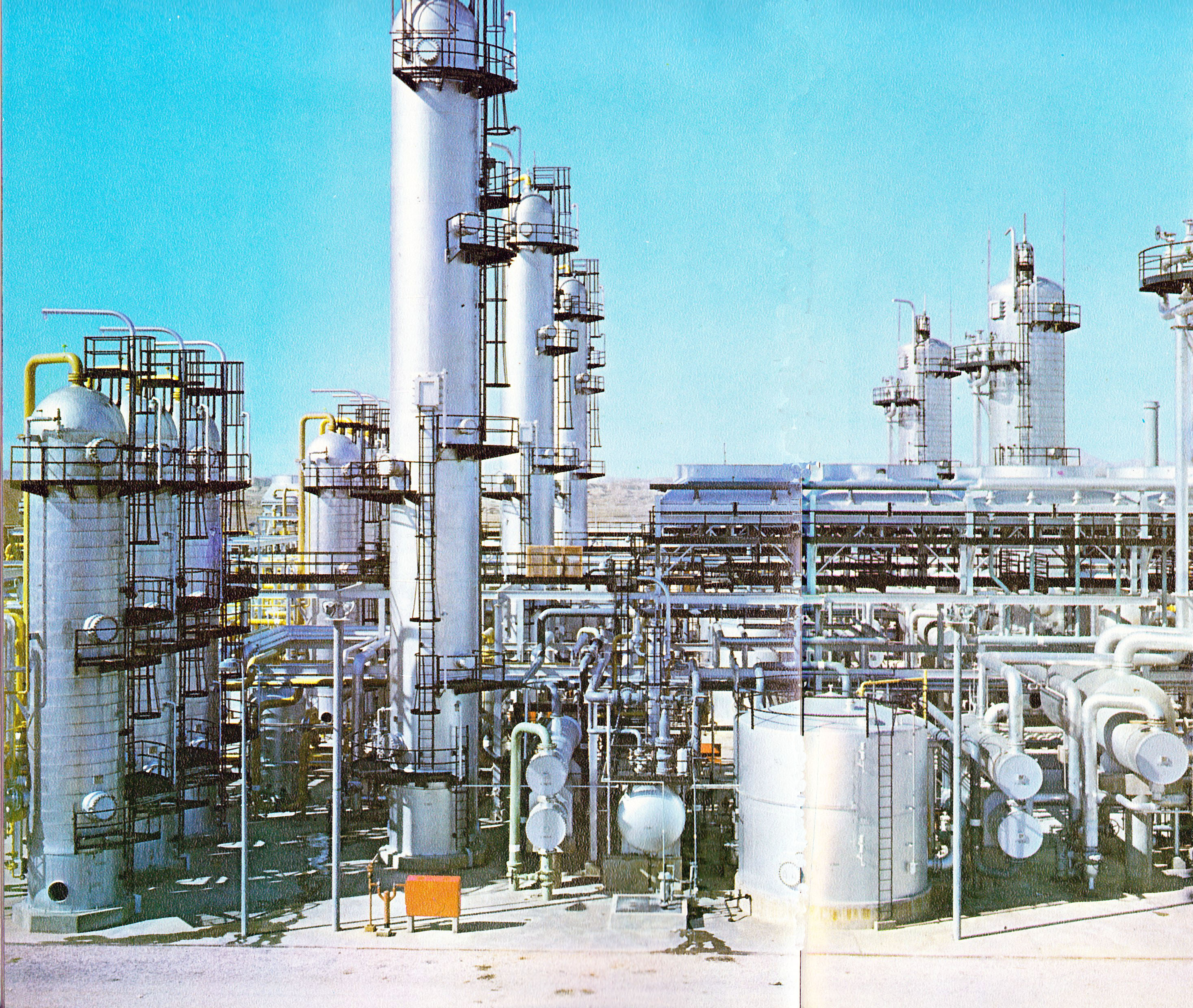 Bidboland gas refinery Aghajary Iran